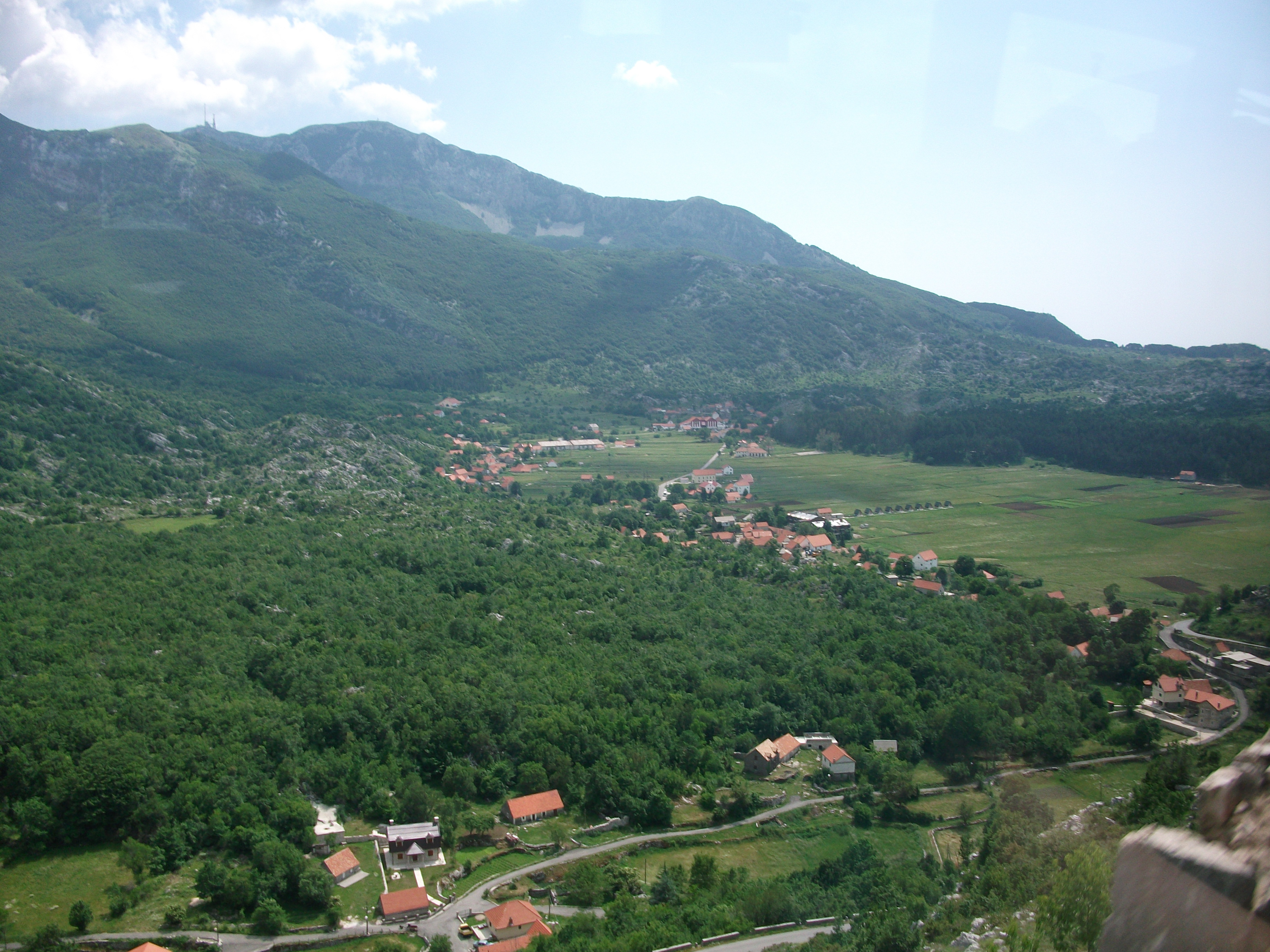 Wednesday, June 15, 2011